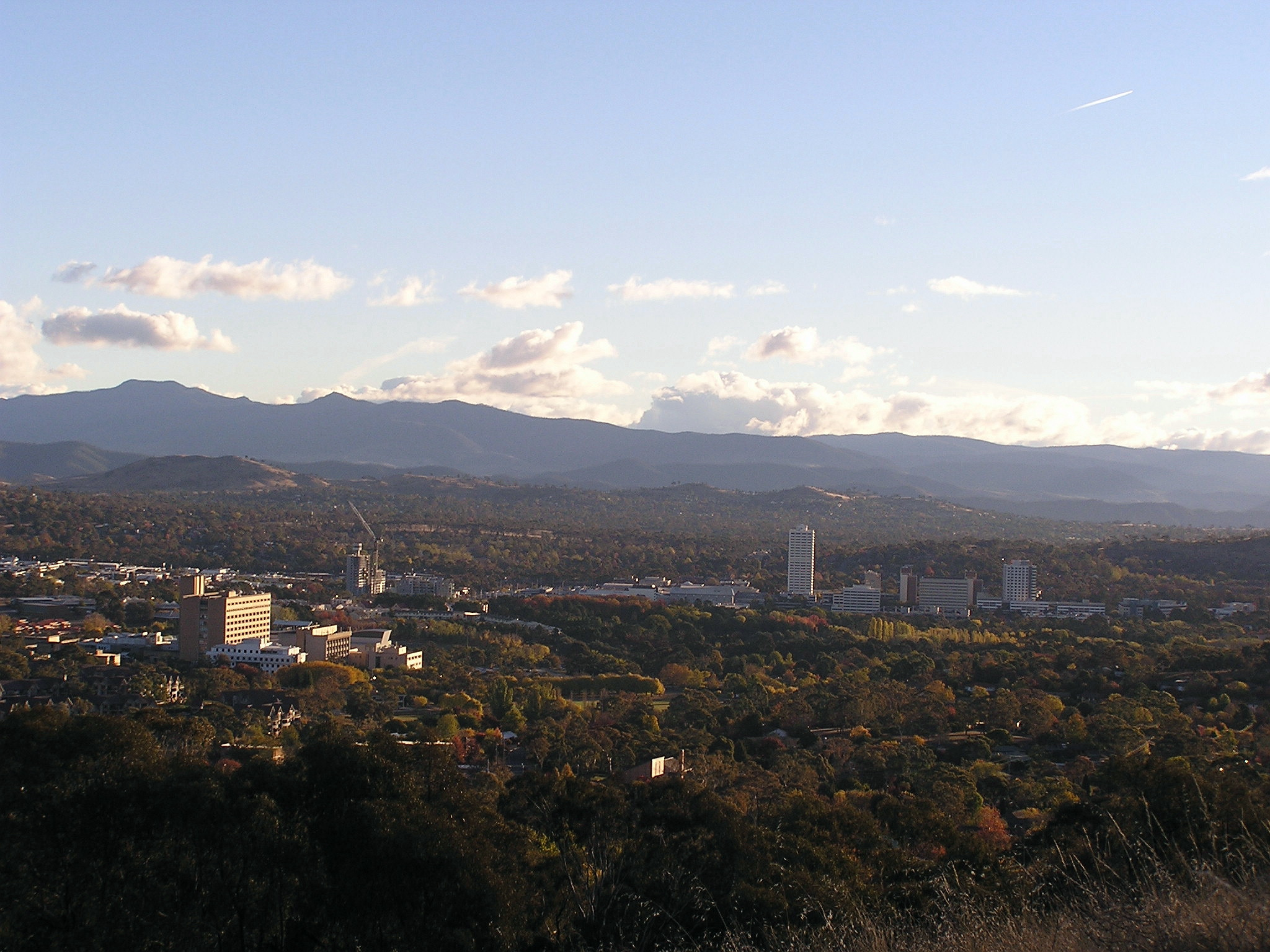 Woden Valley (district), Canberra from Red Hill. The Brindabella Ranges can be seen in the distance.